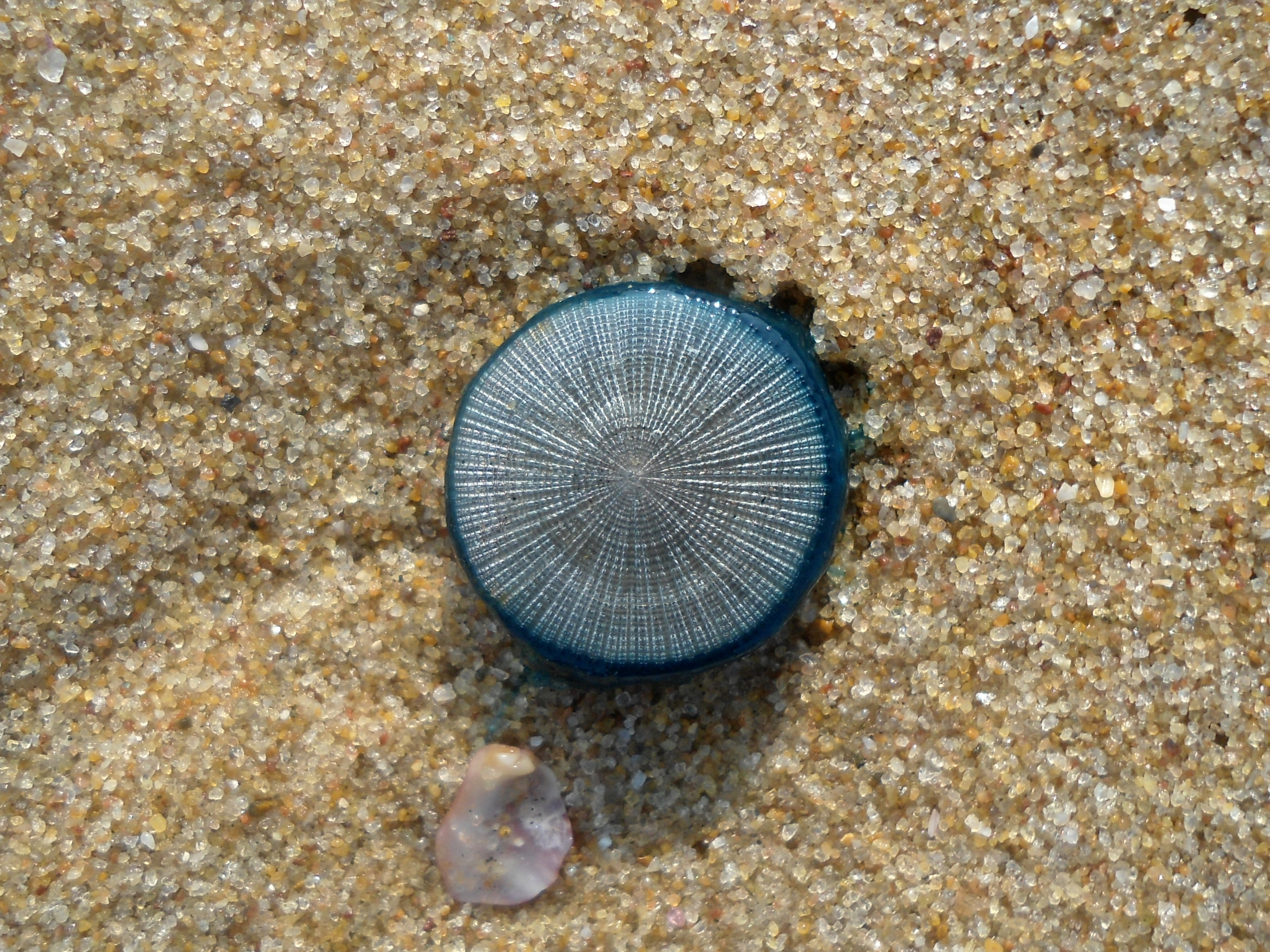 Porpita porpita Blue button (Hydrozoa: Anthoathecata) at Thotlakonda beach in Visakhapatnam, India